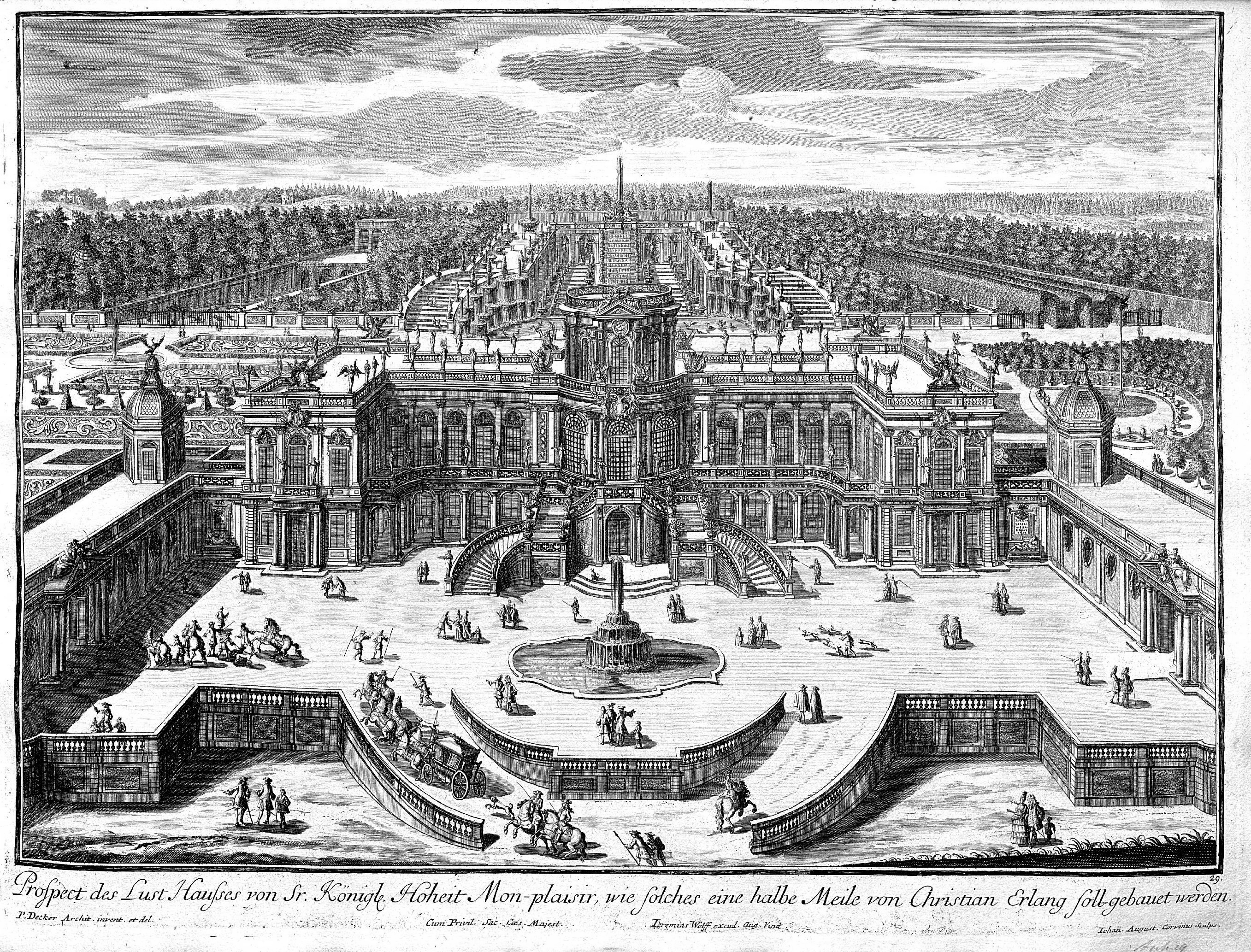 "Fürstlicher Baumeister / Oder Architectura Civilis ...", a collection of copperplates, showing imaginary baroque architecture. A country- or pleasure-seat.